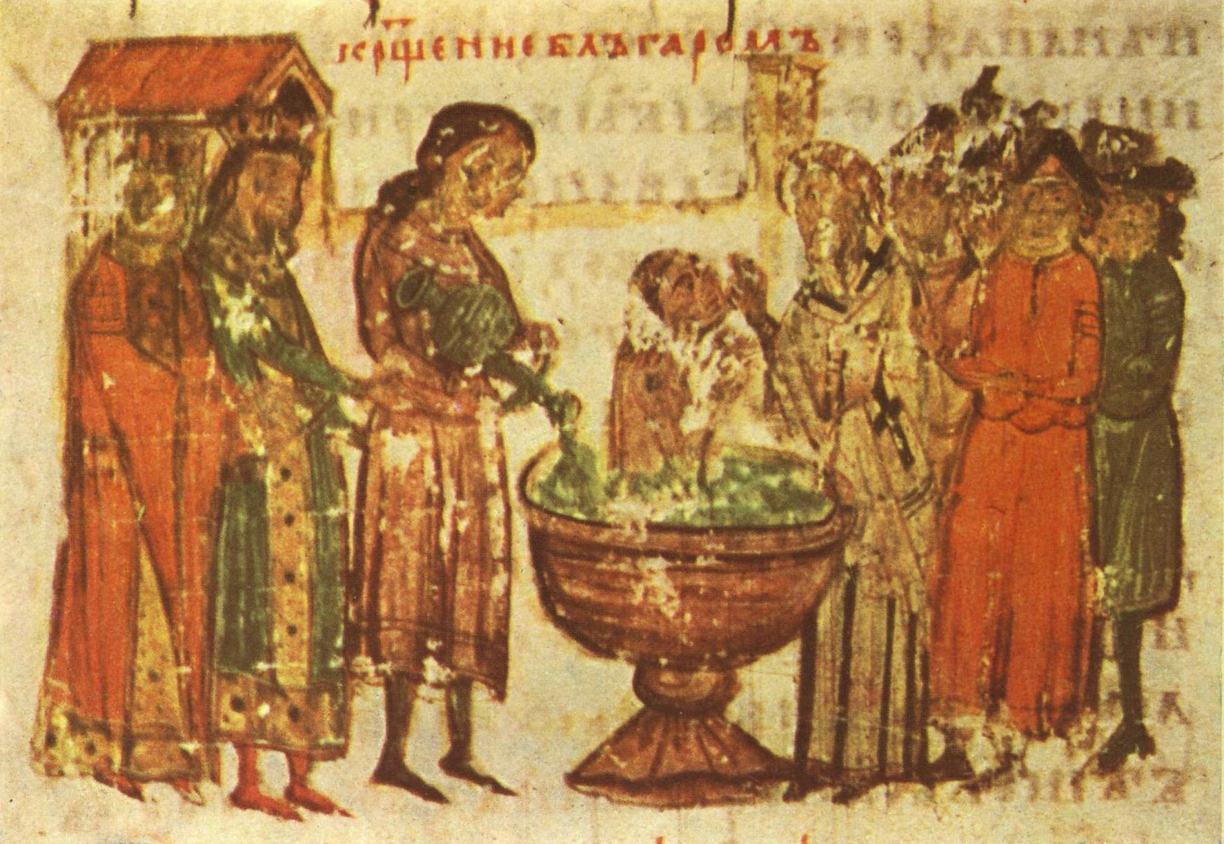 Miniature 57 from the Constantine Manasses Chronicle, 14 century: Christianization of the Bulgarians.